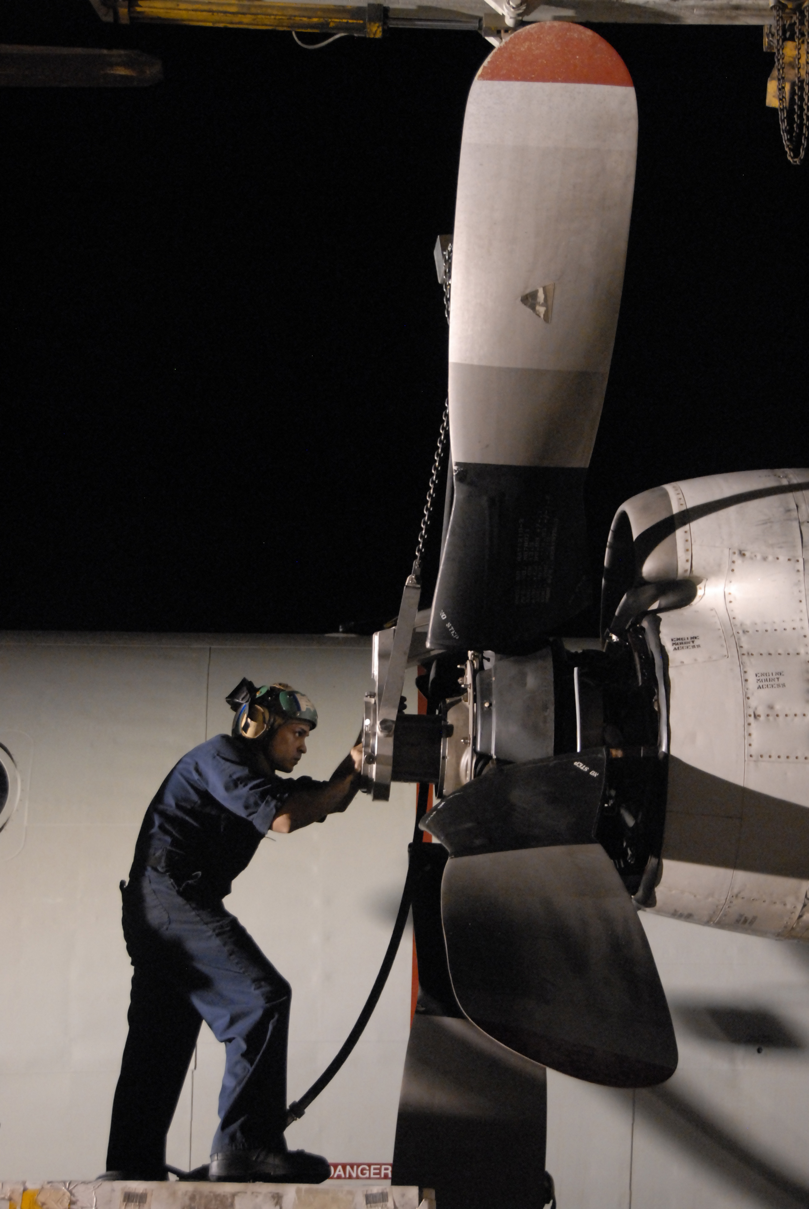 Petty Officer 2nd Class Omar Viraclass, assigned to Patrol Squadron 45, installs a propeller on the number two engine of a P-3C Orion aircraft in Sigonella, Sicily, on June 20, 2011. Patrol Squadron 45 is deployed to Sicily supporting Operation Unified Protector.